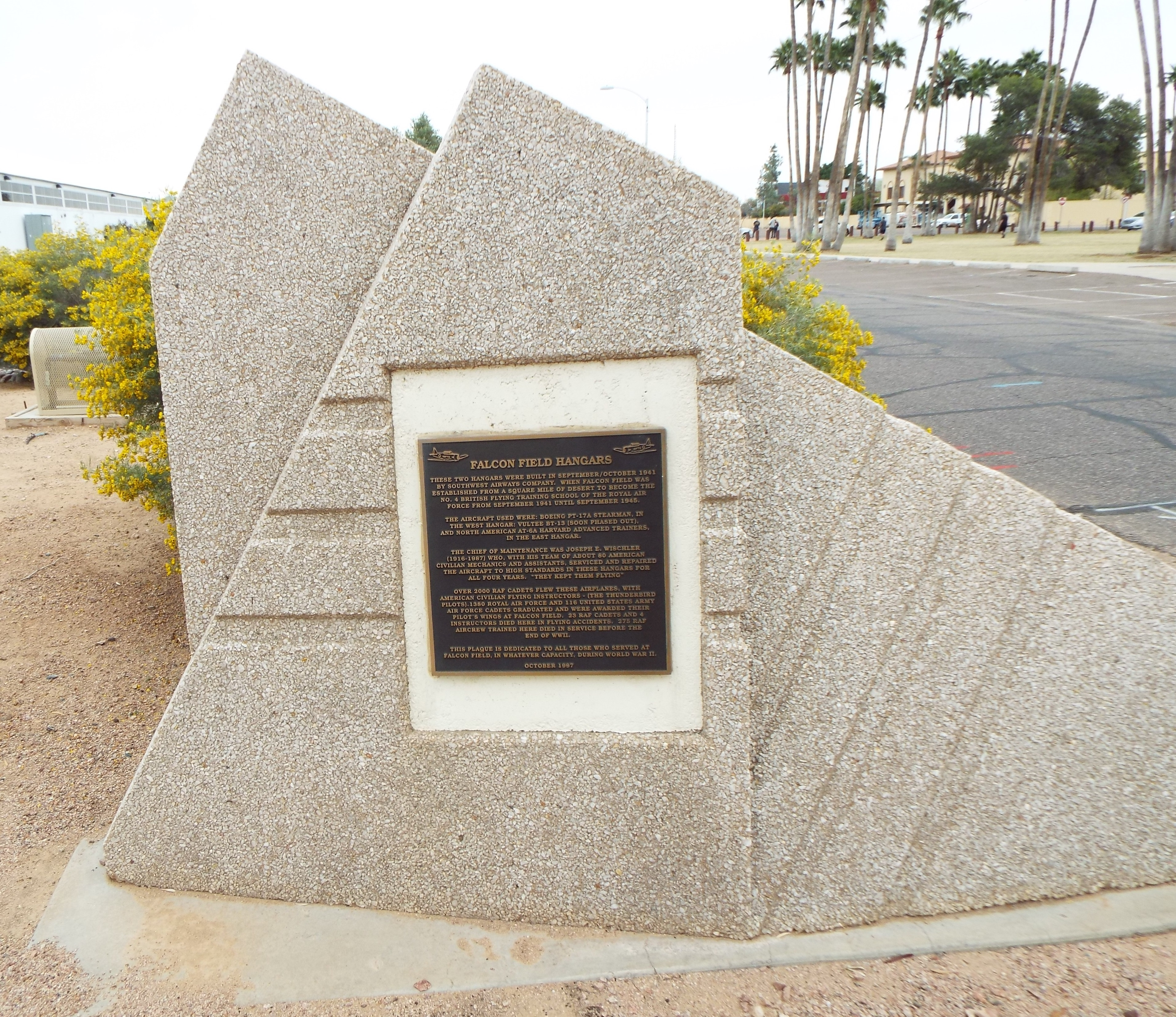 Falcon Field historic (NRHP) WW II Hangers plaque in Meas, Az.